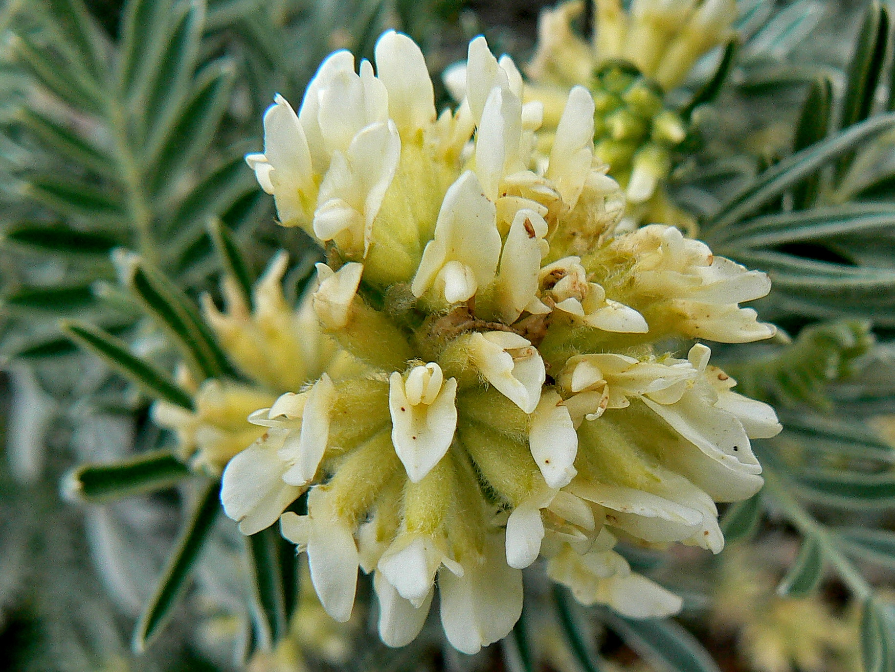 Anthyllis barba-jovis, Cap Taillat, Var, France. Detail of flower